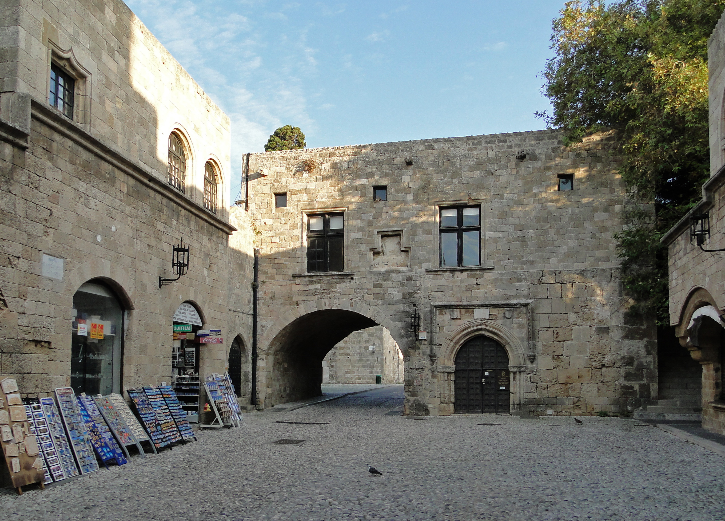 Auberge of the lingua of Auvergne, Medieval City of Rhodes, Greece